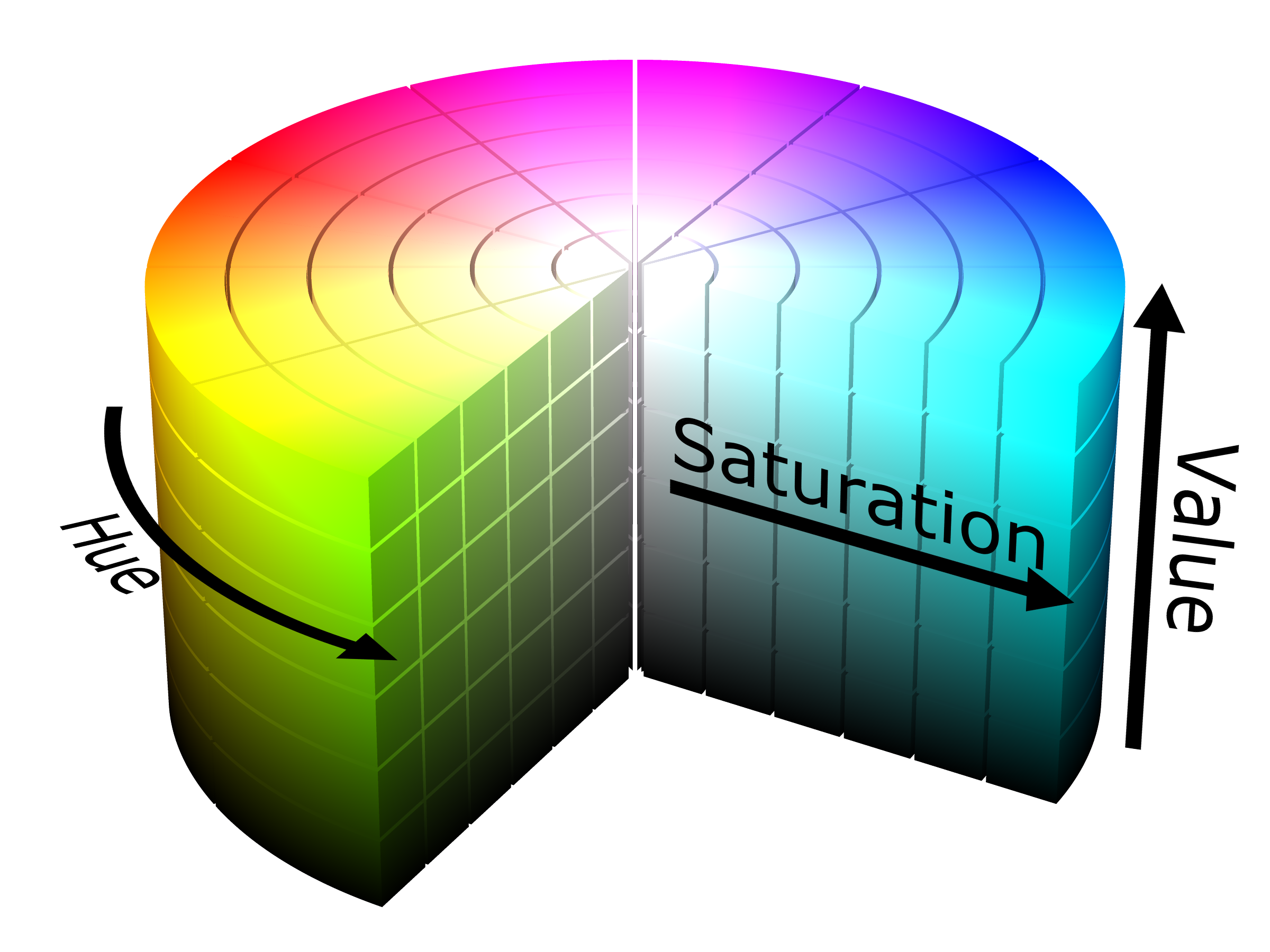 The HSV color model mapped to a cylinder. POV-Ray source is available from the POV-Ray Object Collection.